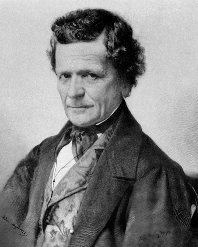 Swiss politician (liberal-radical faction, today FDP), teacher, writer and statistician..